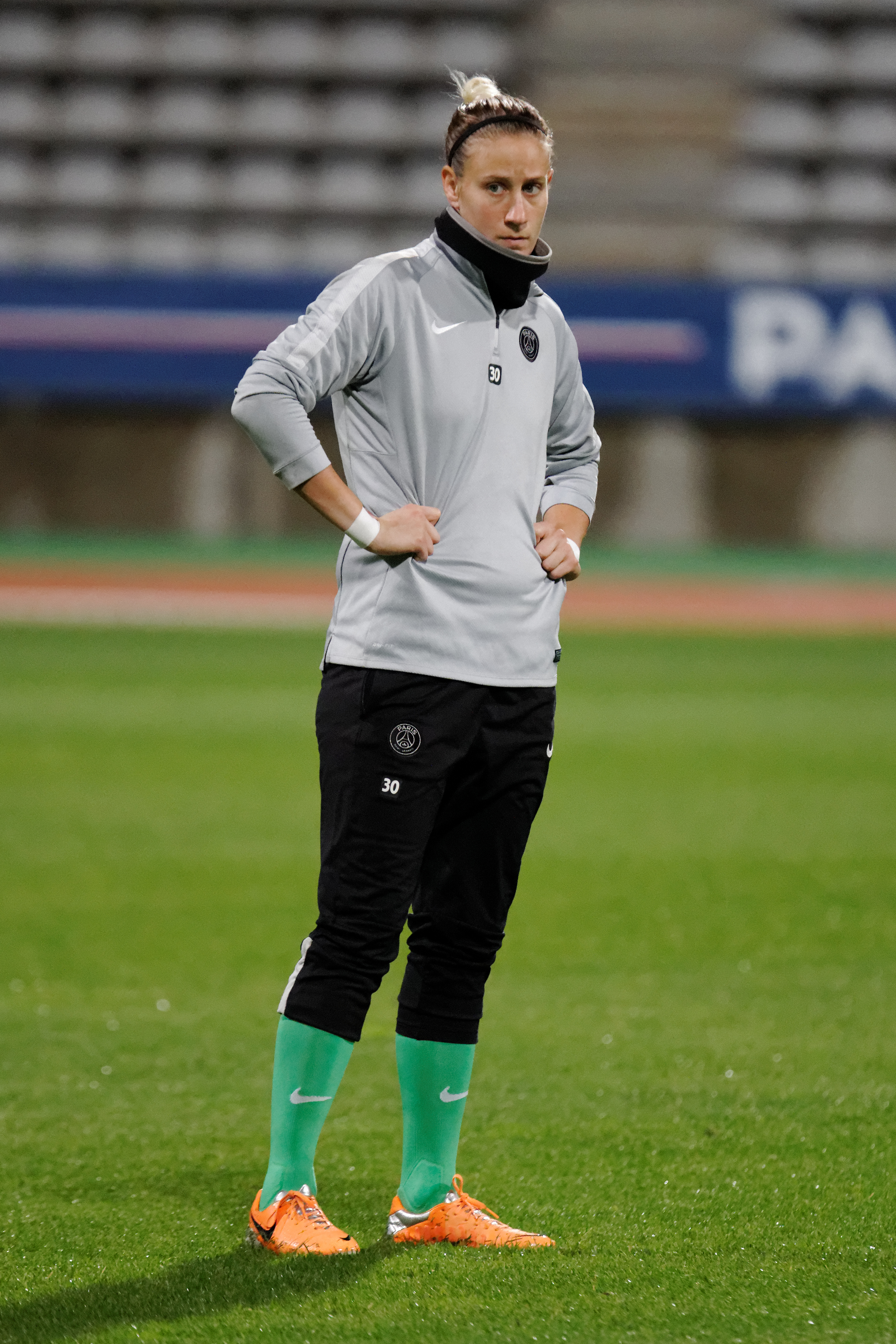 UEFA Women's Champions League, PSG - Twente, 15 October 2014